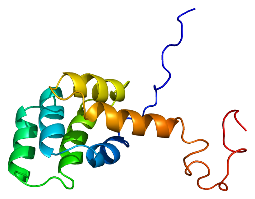 Structure of the FAS protein. Based on PyMOL rendering of PDB 1ddf.